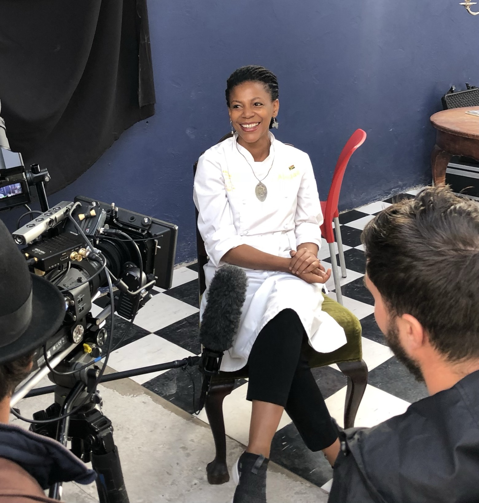 Аҧсшәа: Tell them stories